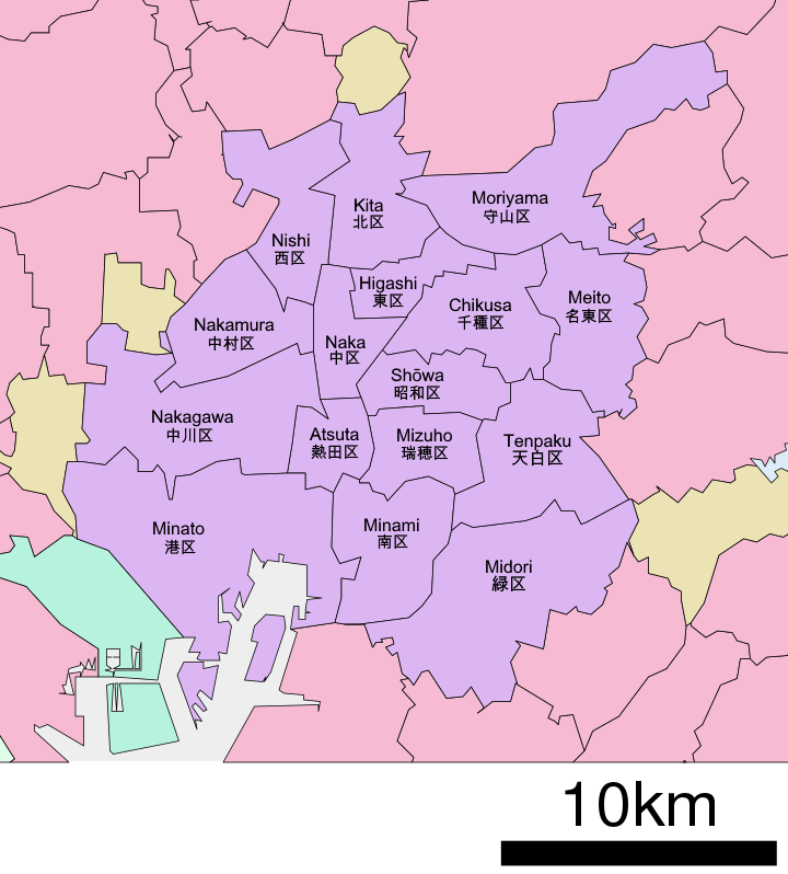 Map of wards of Nagoya